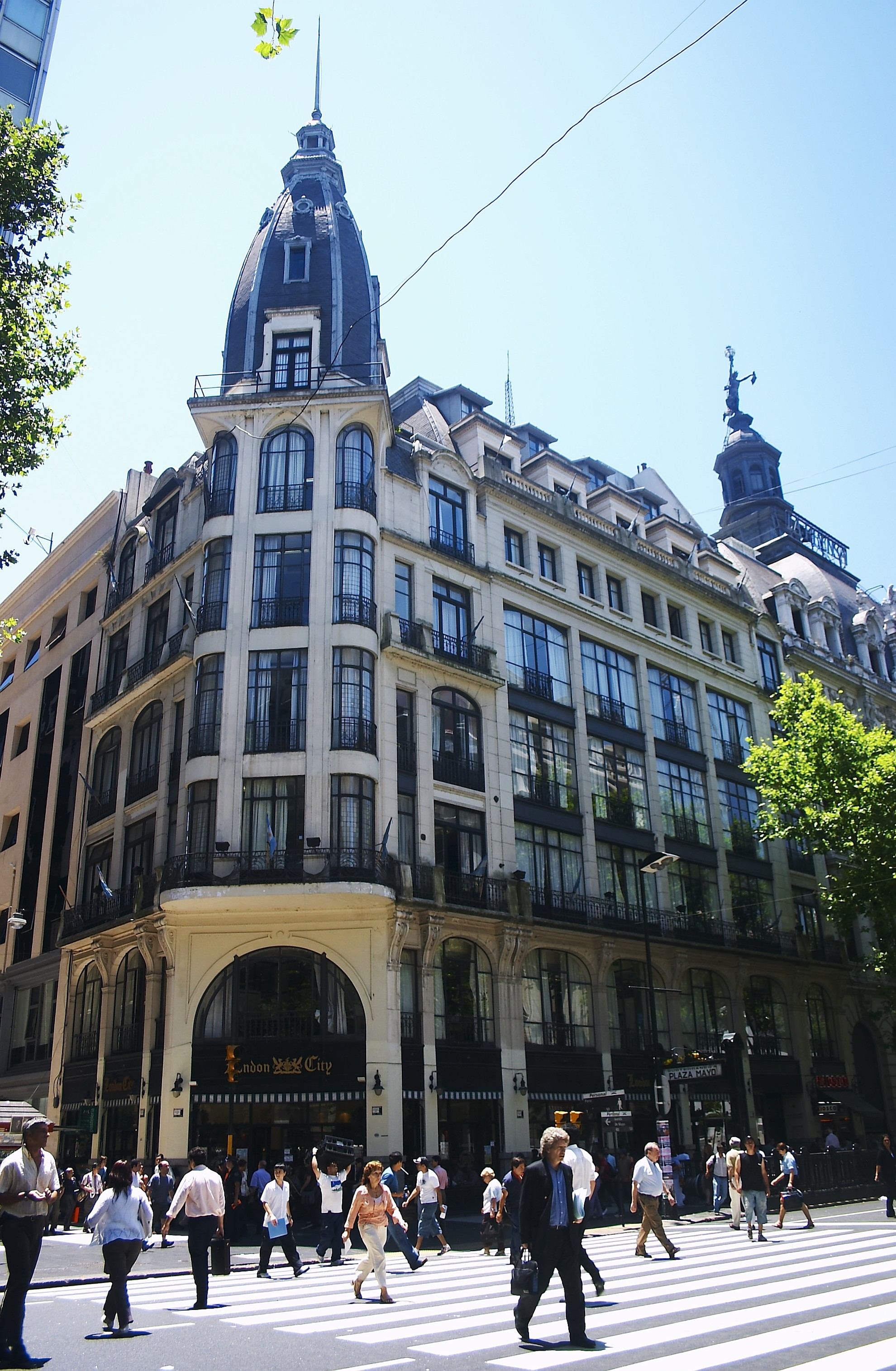 The former Gath & Chaves annex on the Avenida de Mayo, site of the London City Café (est. 1954). Originally designed by Edwin Merry for the Luro stores in 1895, the building was redesigned by Salvatore Mirate for Gath & Chaves and completed in 1910.